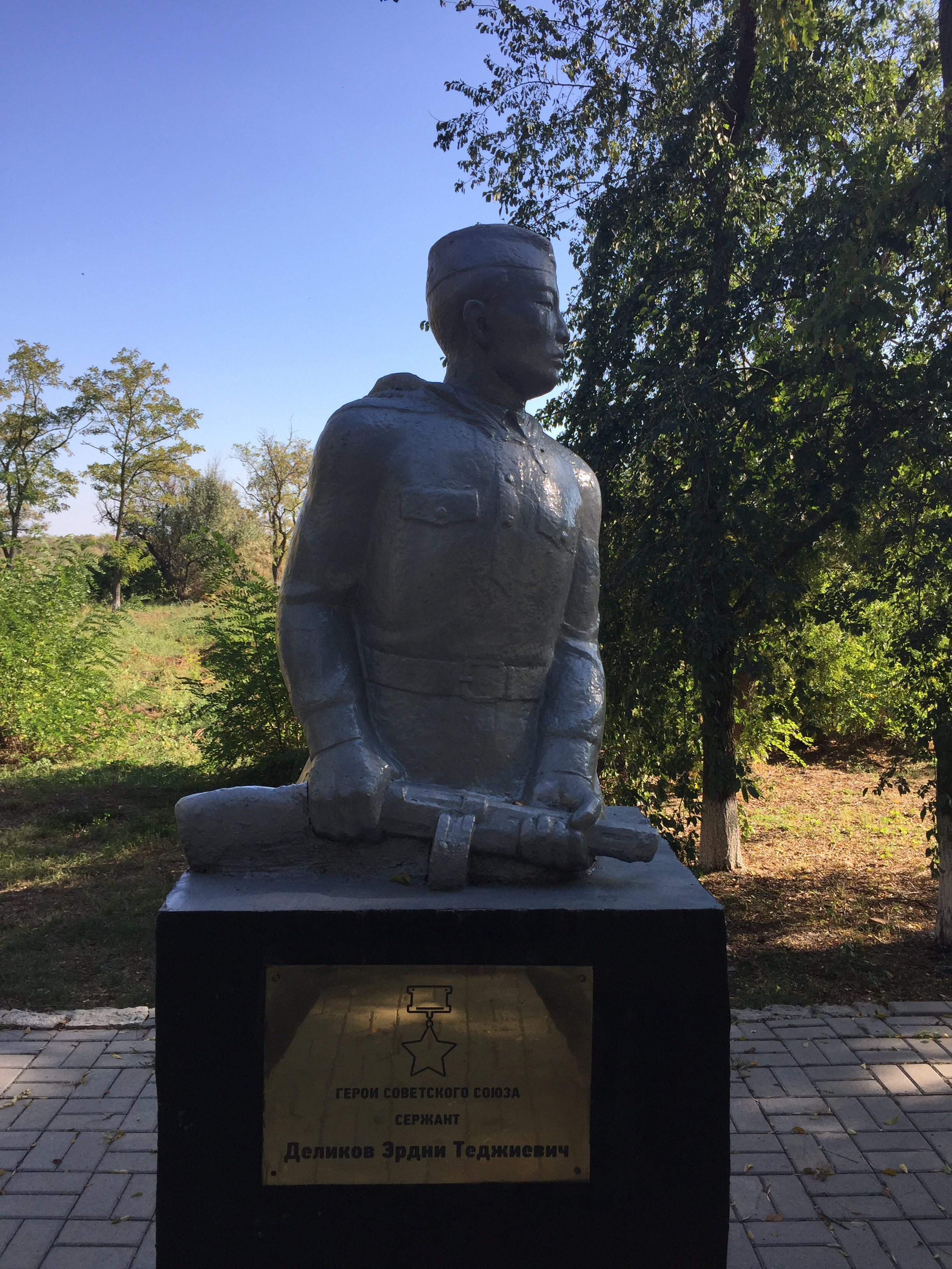 Monument to the hero of the Soviet Union Erdni Teledzhievich Delikov in the village of Razdorskaya.